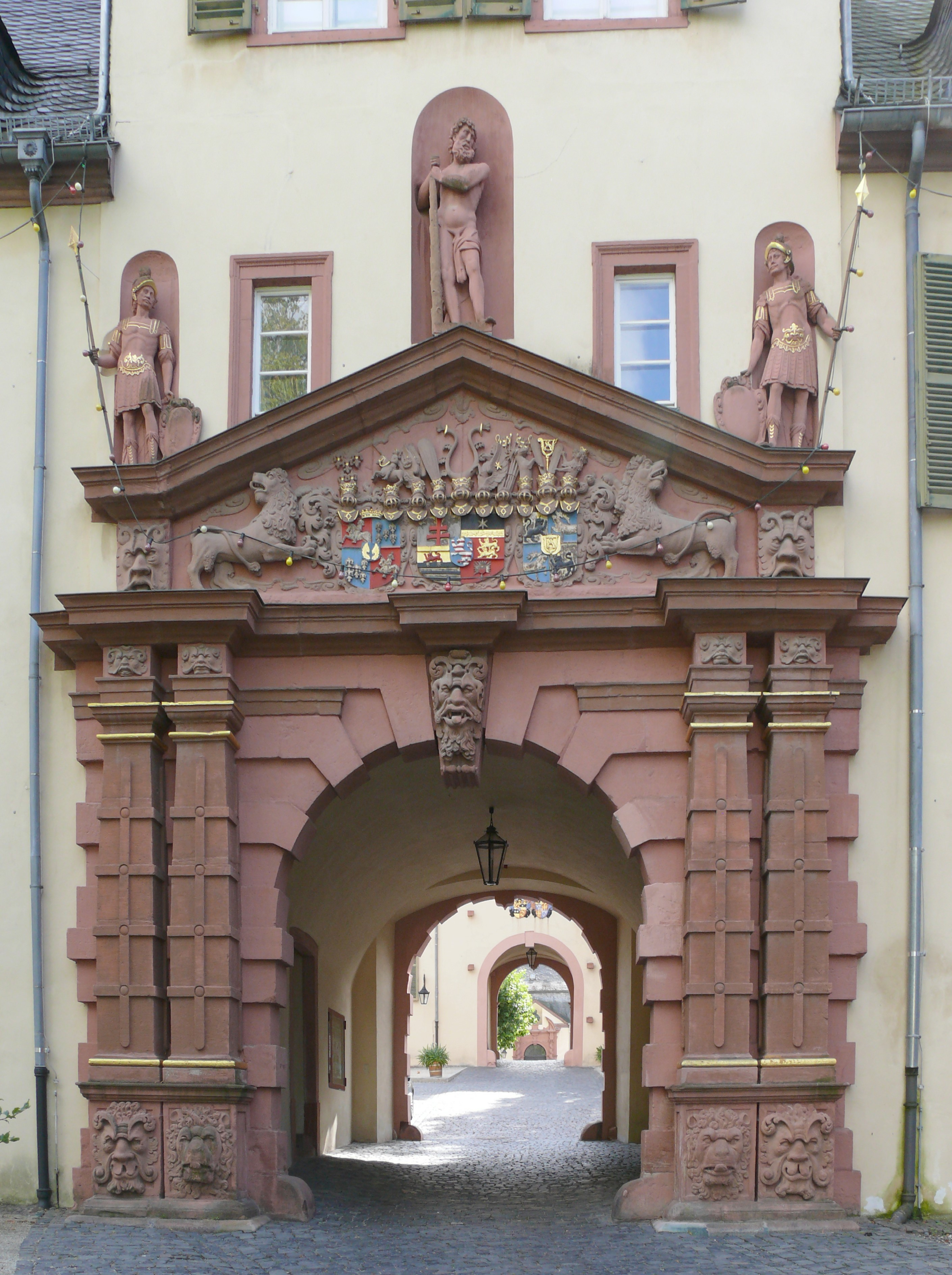 The lower portal of Bad Homburg castle. Bad Homburg, Hesse, Germany.